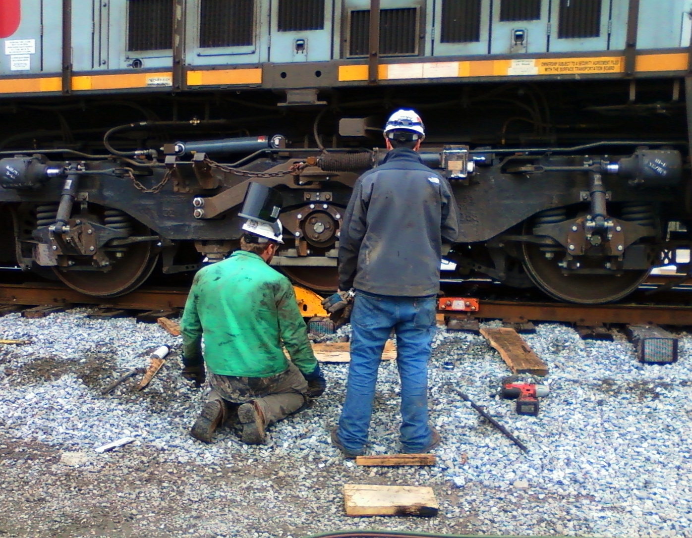 Workers attempt to rerail a locomotive that has derailed due to a broken rail.